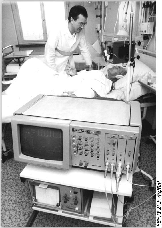 Patients being monitored thanks to an agreement between the Engineering College of Dresden (IHD) and the Medical College of Dresden (MAD).